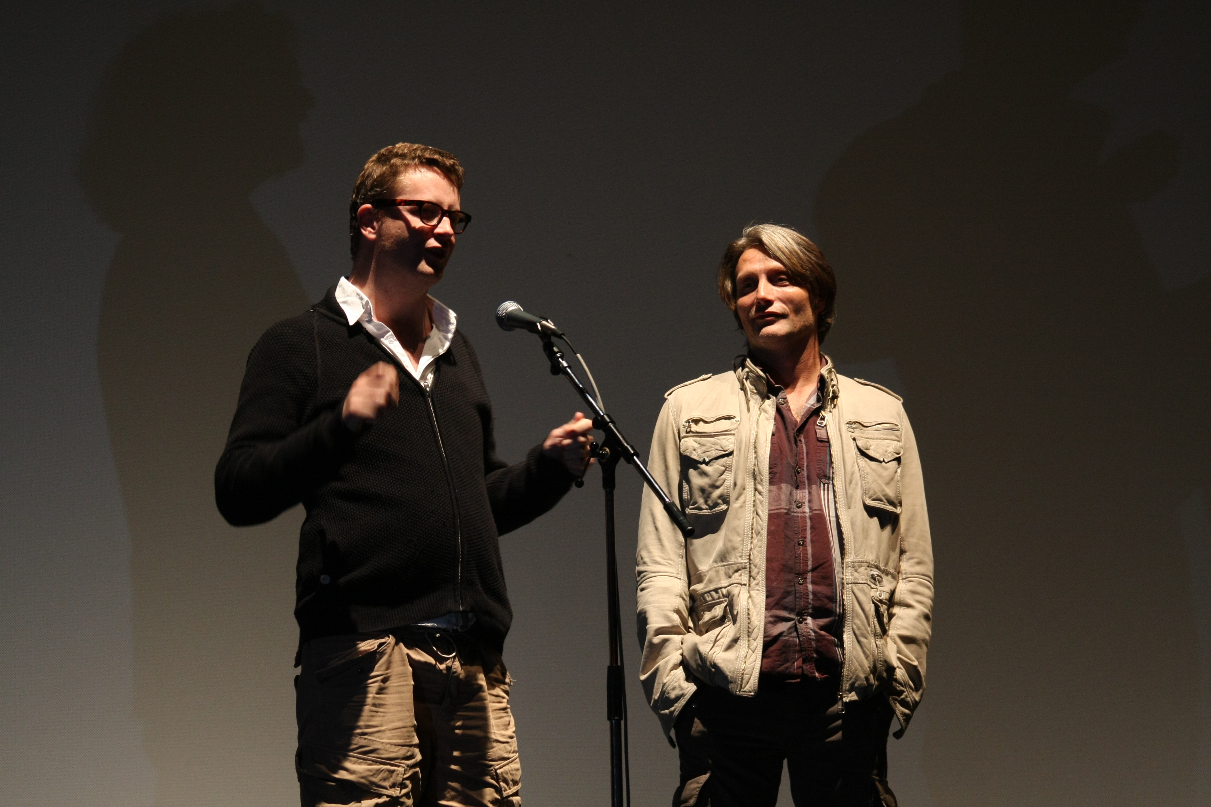 Nicolas Winding Refn and Mads Mikkelsen. I last saw Mikkelsen as Le Chiffre in "Casino Royale"; he also plays Igor Stravinsky in this year's "Coco Chanel and Igor Stravinsky". He is amazing in Valhalla Rising, looking like he could take on The Rock in the ring.